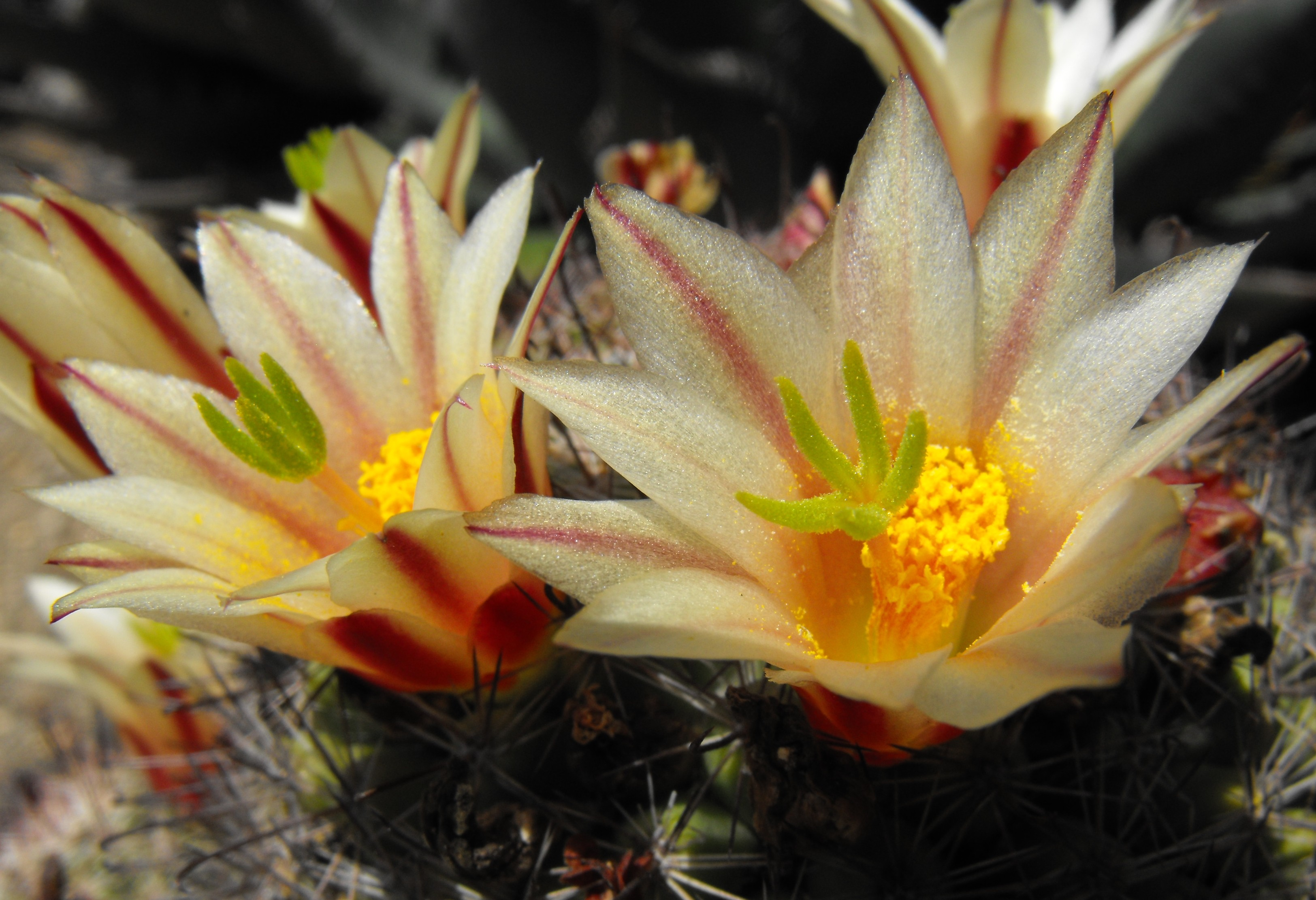 Mammillaria dioica in the Whitaker Garden at Torrey Pines State Reserve, San Diego, California, USA. Identified by sign.